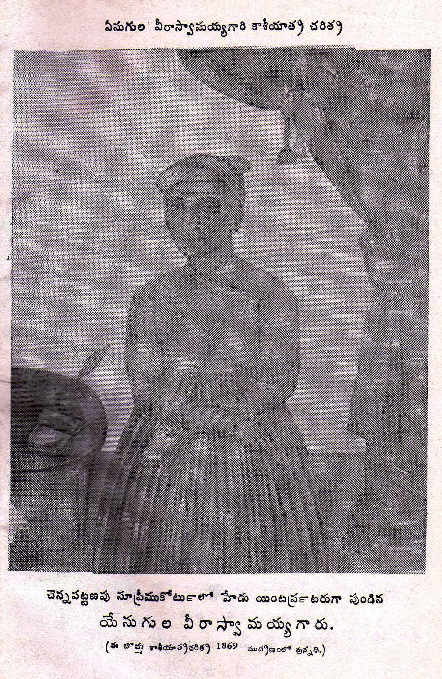 Enugula veeraswamayya, interpreter, author. Popular for his work and first travelogue in modern telugu literature- kashi yatra charitra